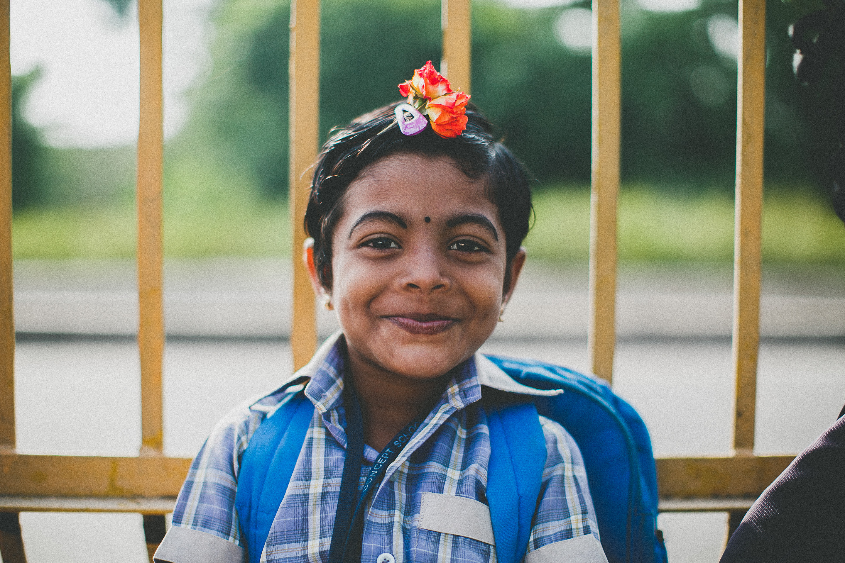 Indian child apart of Restore International Sponsorship program